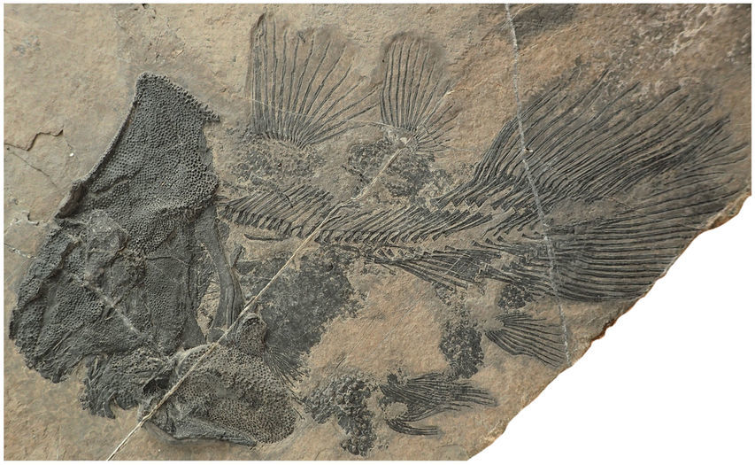 Fig. 1. Skeleton of the new coelacanth Foreyia maxkuhni gen. et sp. nov. Photo of the holotype (PIMUZ A/I 4620).